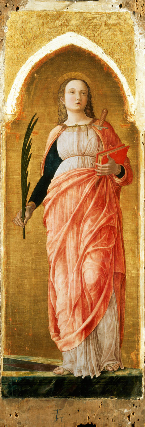 detail of the St. Lucas altarpiece